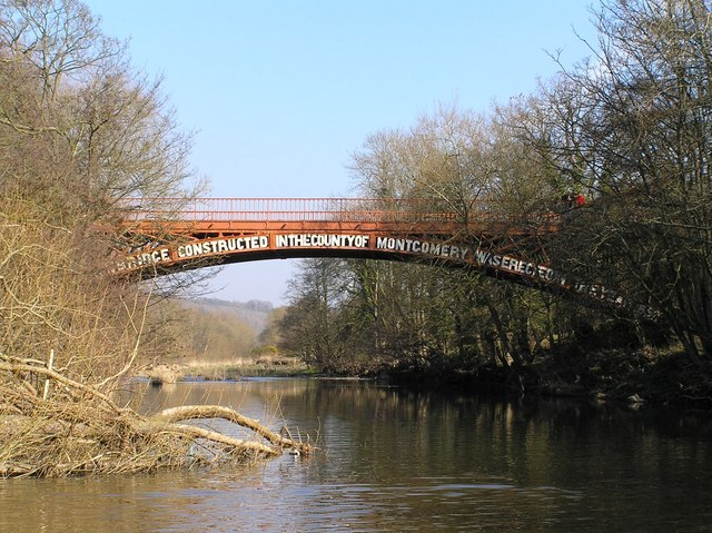 River Severn, Brynderwen road bridge Built in 1852, 'The second ironbridge' at the junction of the B4386 & A483. Considered to be the thirty fourth bridge from the source.